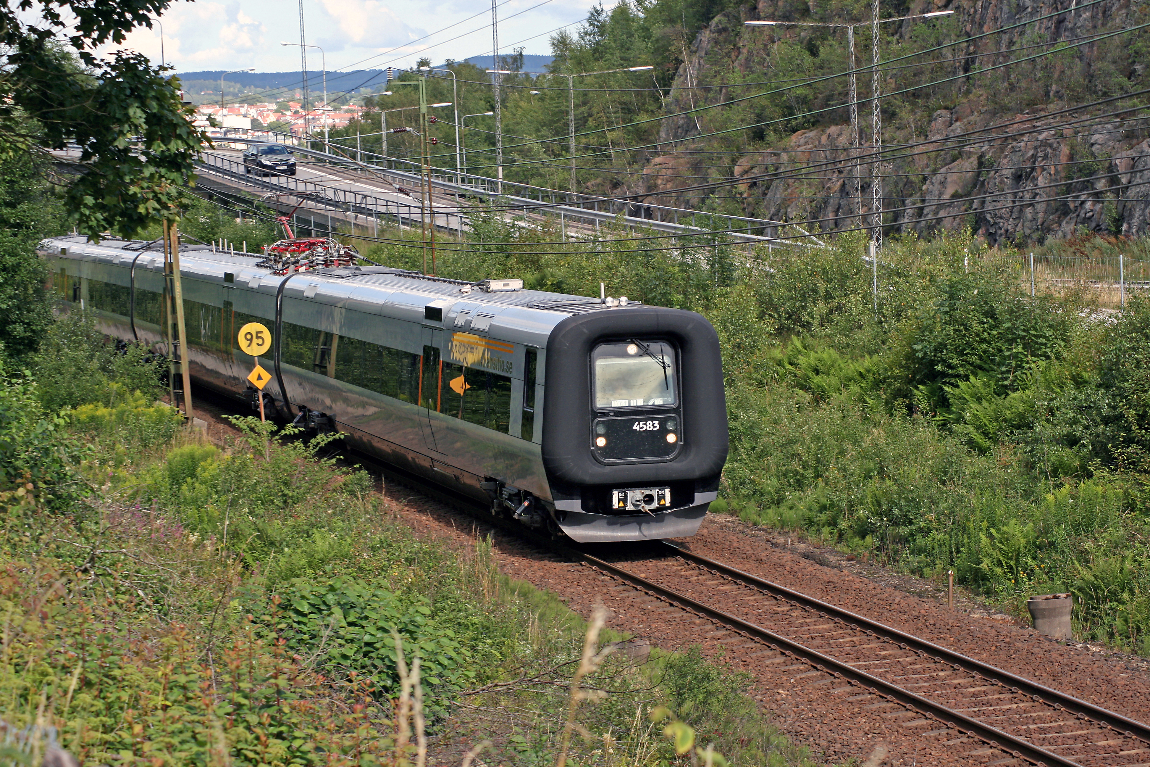 A X31 train outside Borås